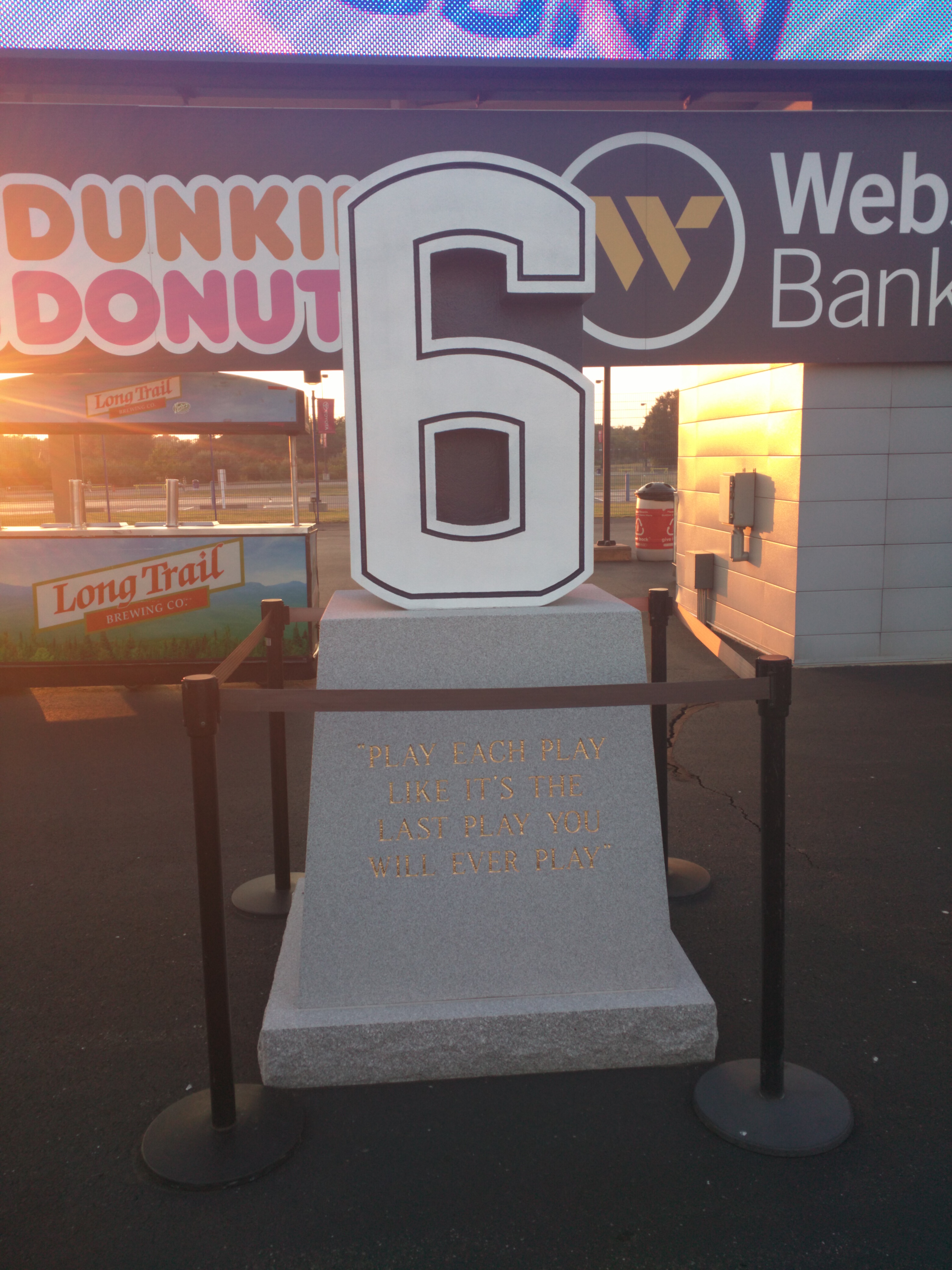 Monument to Connecticut Huskies football player Jasper Howard, erected in Pratt & Whitney Stadium at Rentschler Field on November 1, 2014. Howard was murdered on the UConn campus in October 2009. Inscribed on the monument is the quote "Play each play like it's the last play you will ever play", given by Howard in an interview shortly before his death.